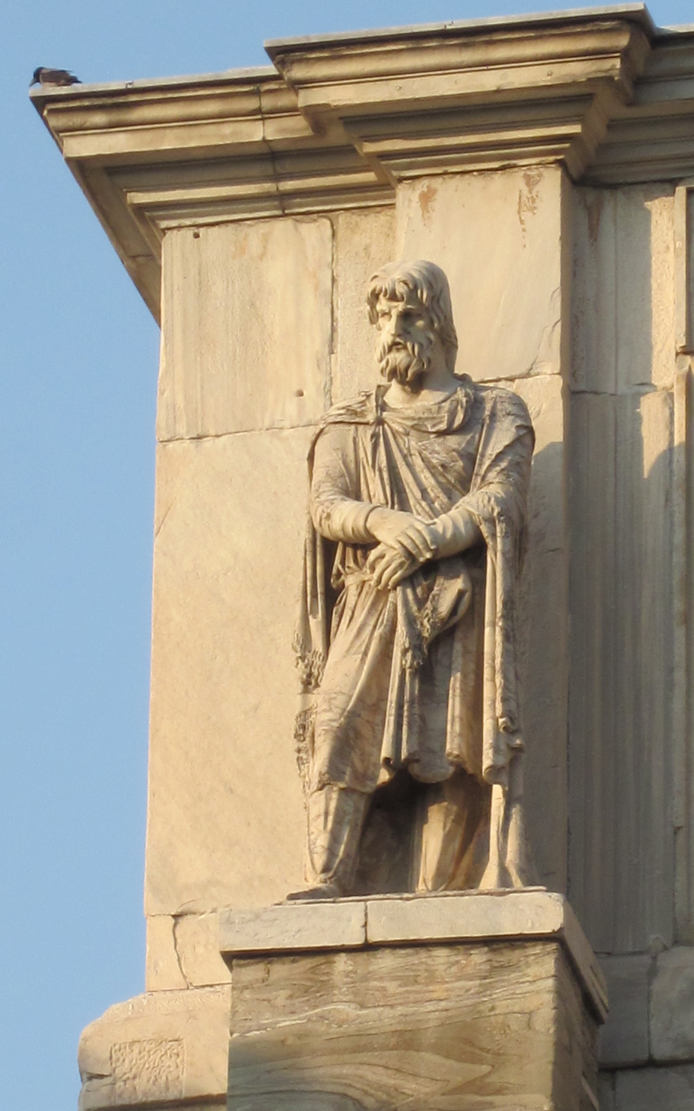 At the top of the Arch of Constantine, large sculptures representing Dacian prisoners can be seen, taken from a Trajanic monument commemorating the conquest of Dacia in the 2nd century.